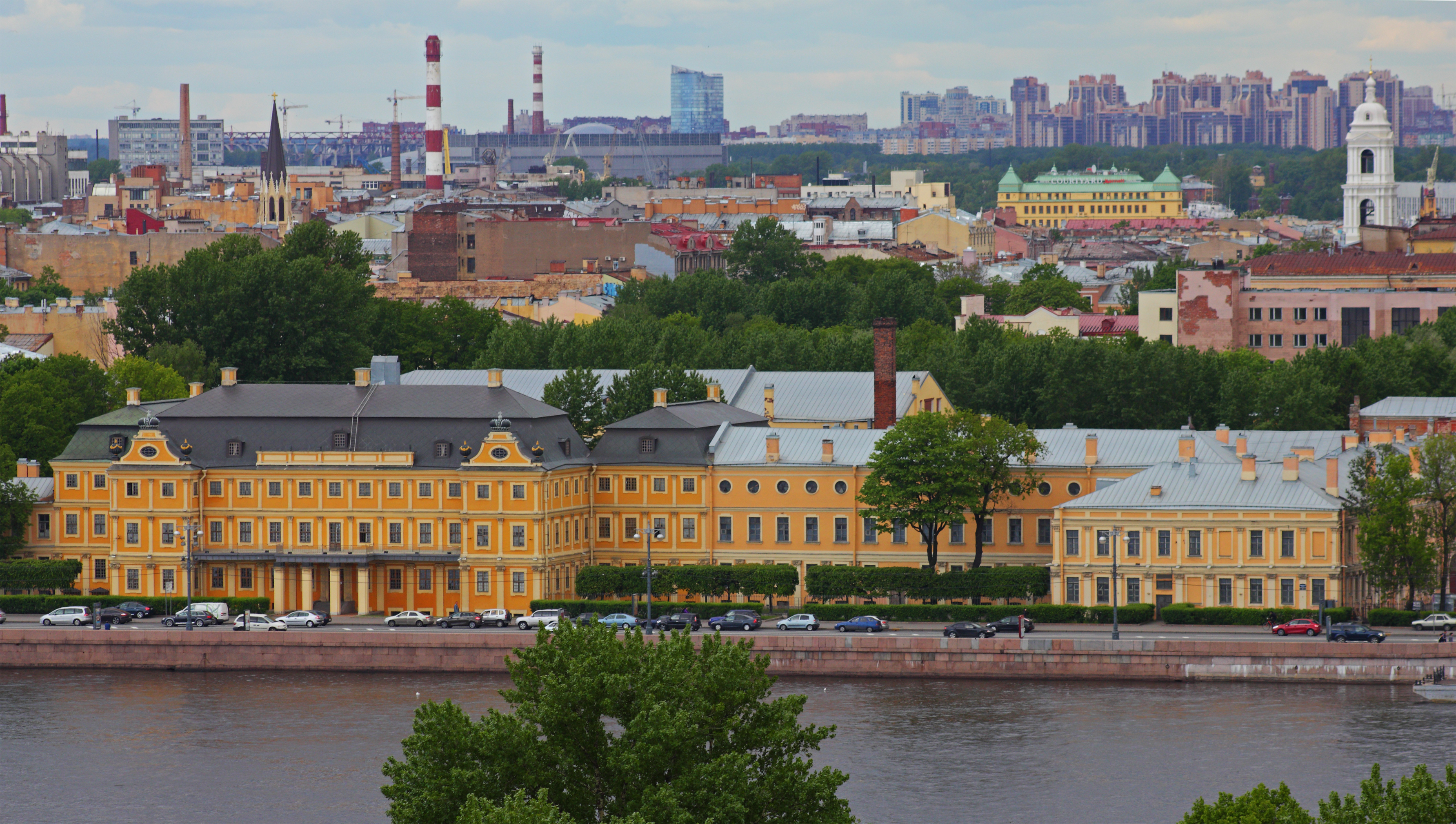 Saint Petersburg, Russia. The ensemble of the University Embankment, as seen from the Cathedral of St. Isaac.